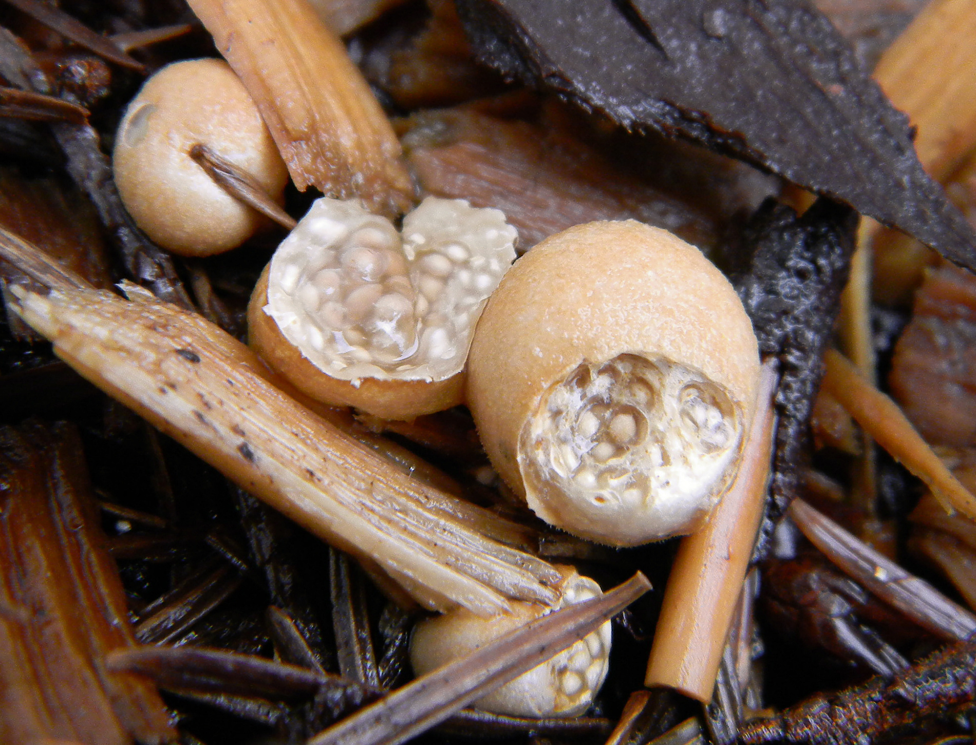 Nidularia deformis (Willd.) Fr.